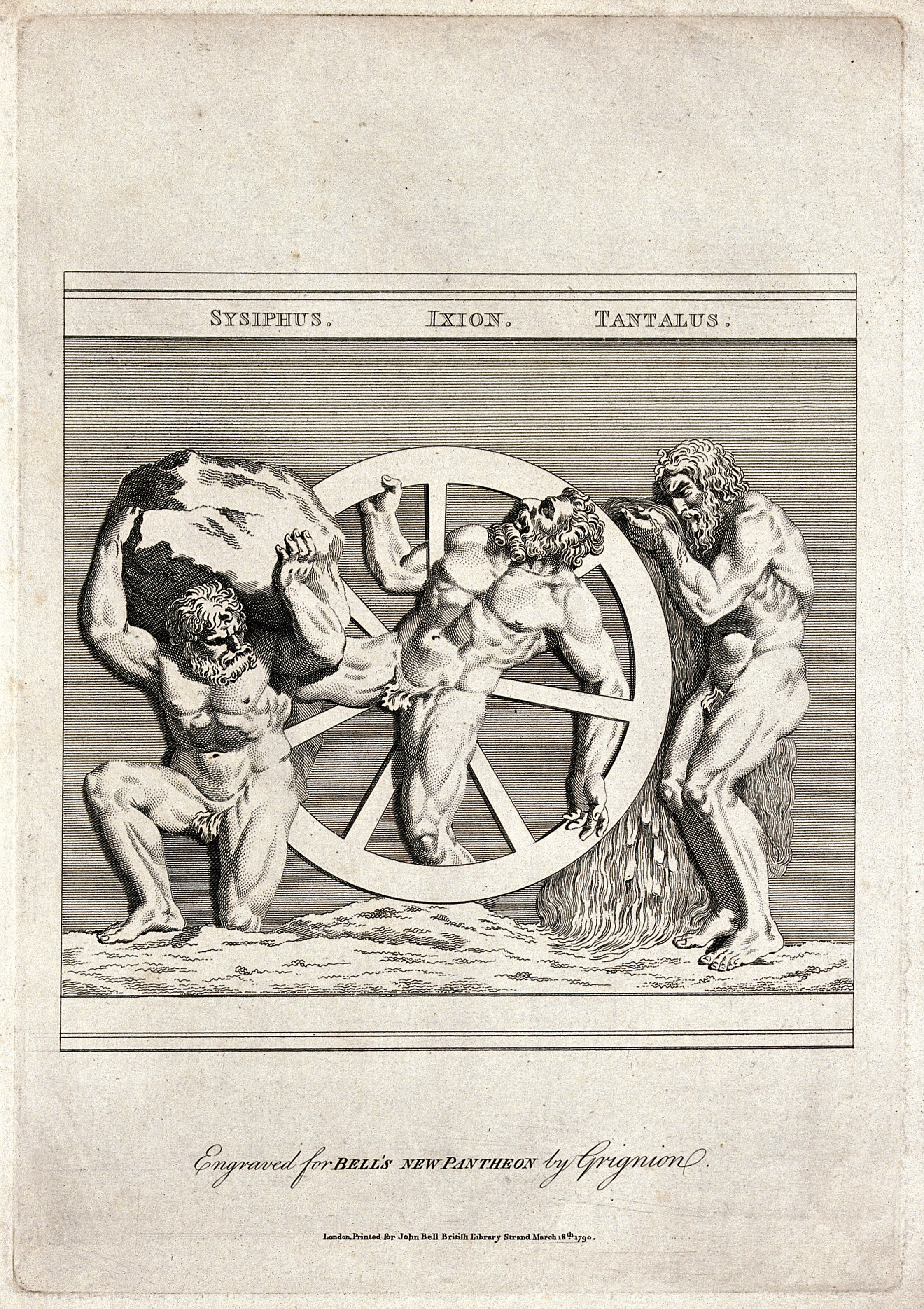 Sisyphus, Ixion and Tantalus. Etching by C. Grignion, 1790. Iconographic Collections